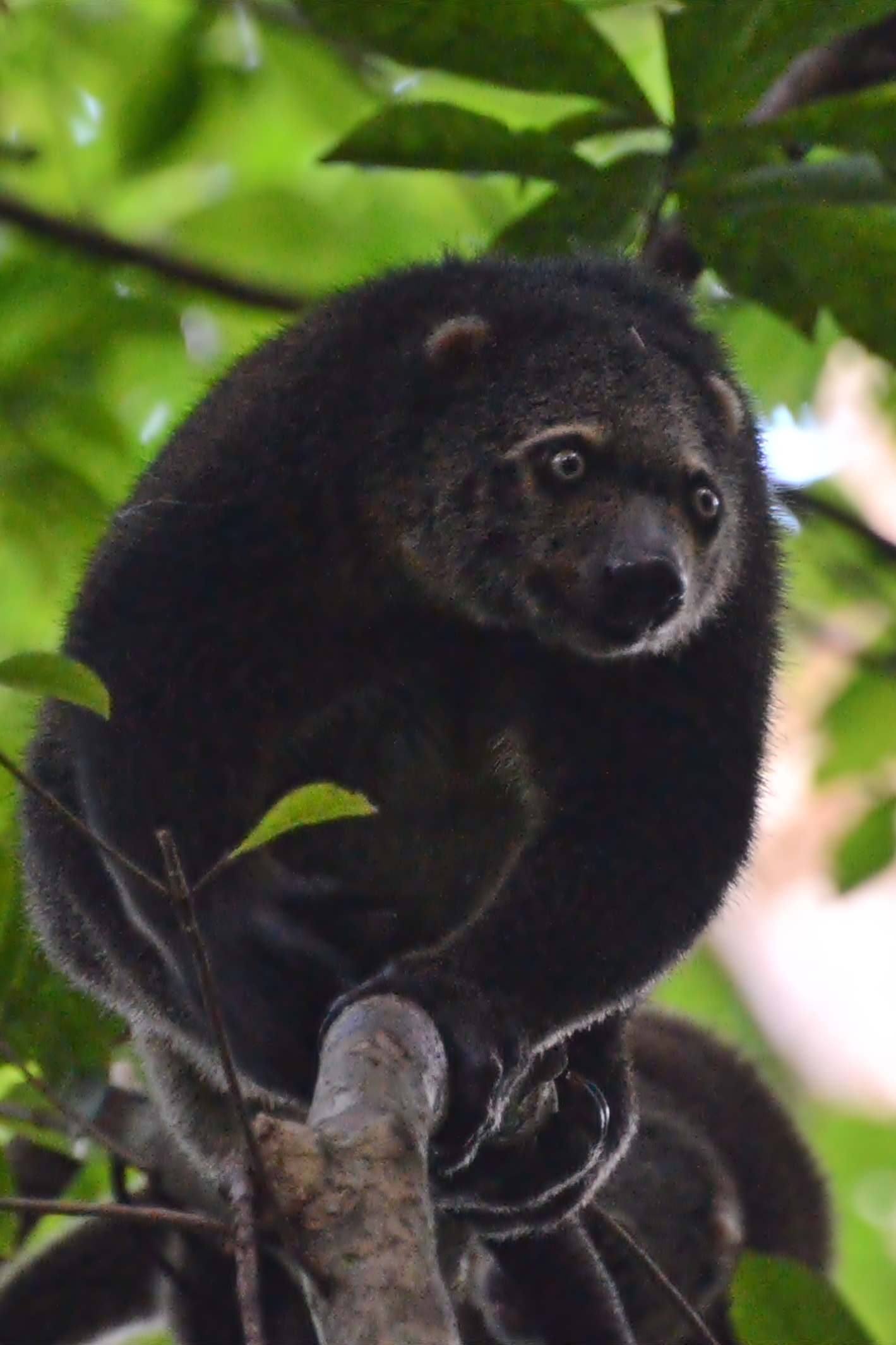 Sulawesi bear cuscus (Ailurops ursinus) at Tangkoko Batuangus Nature Reserve, North SulawesiBahasa Indonesia: Kuskus beruang sulawesi (Ailurops ursinus) di Cagar Alam Tangkoko Batuangus, Sulawesi Utara